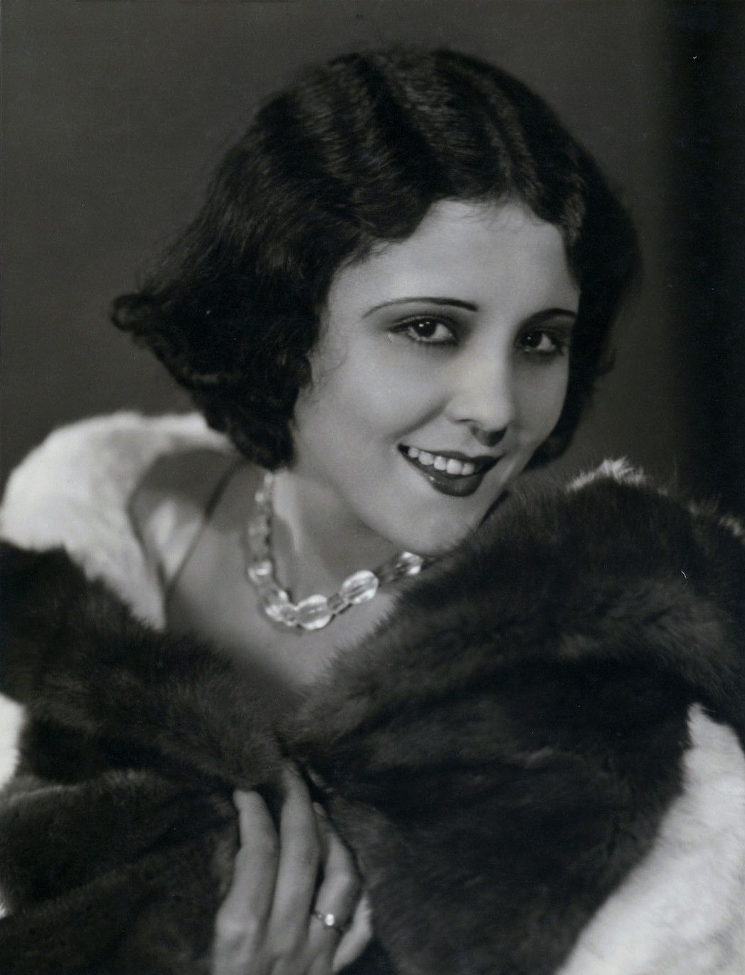 mexican-born american actress Raquel Torres - publicity still (cropped)